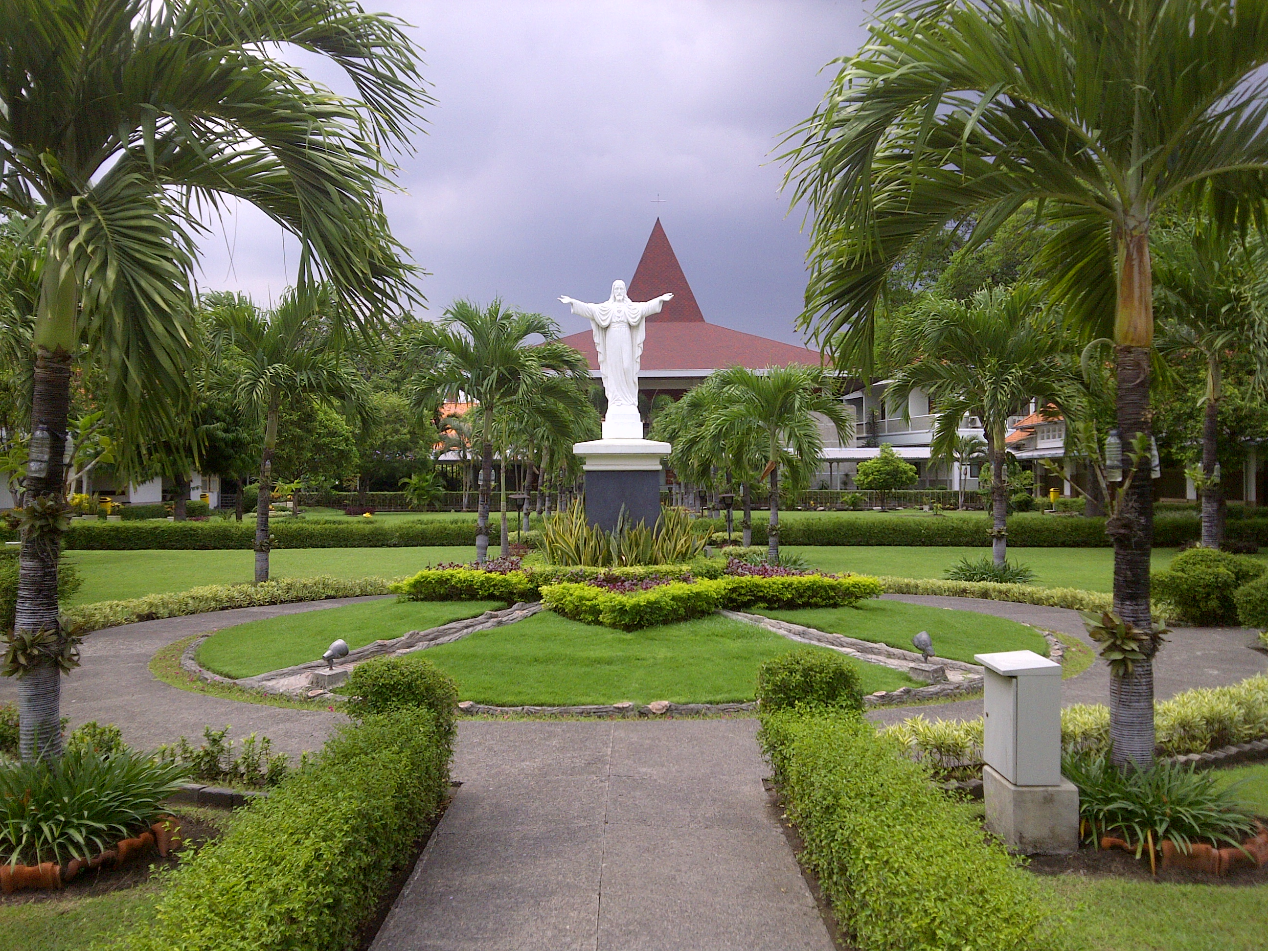 Jesus statue, Catholic, Indonesia